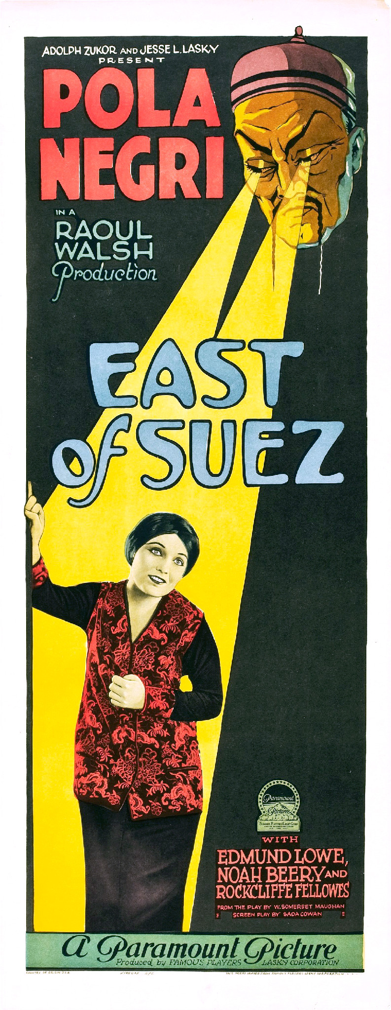 Poster for the 1925 film East of Suez. There are no copyright marks on the item. At lower left is Country of origin USA. Lower middle Wyanoak NYC-printed the poster. At lower right is This insert leased from Paramount Famous Players Lasky Corp.